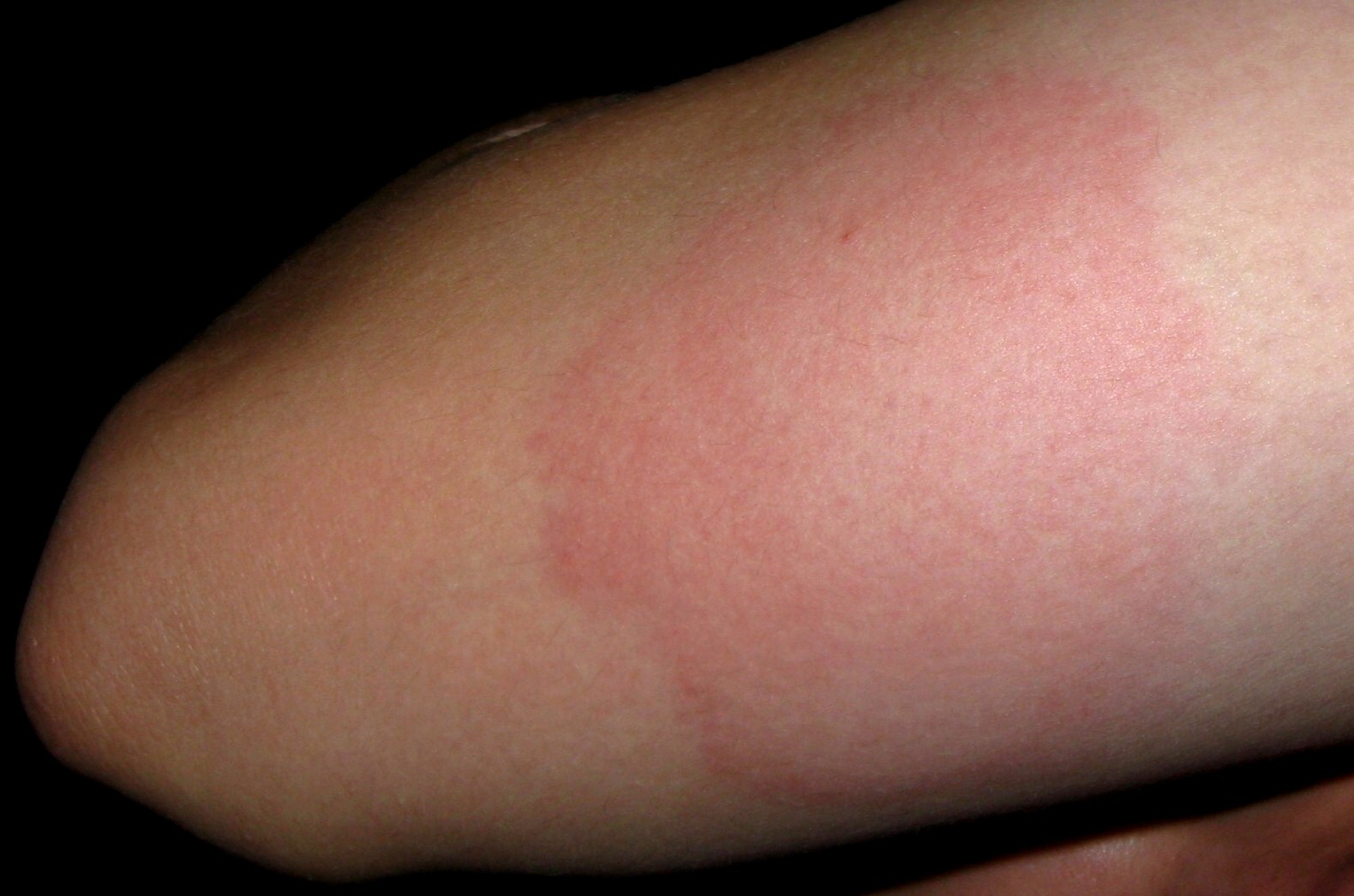 Skin rash after injection of allergens during hyposensibilization therapy.